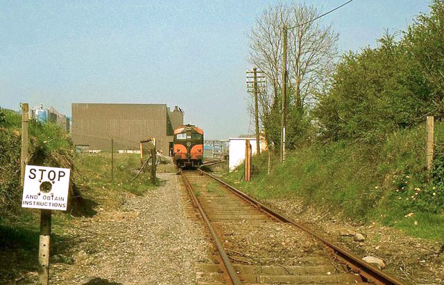 Railway, Tara Mines near Navan. The Tara mine near Navan is Europe's largest producer of zinc ore. The ore is conveyed by rail for export through Dublin port. The siding to the mine is built on the bed of the old Navan Jct - Oldcastle line (1853 - 1961). The mine (background) opened in 1977. Continue to 1084624.